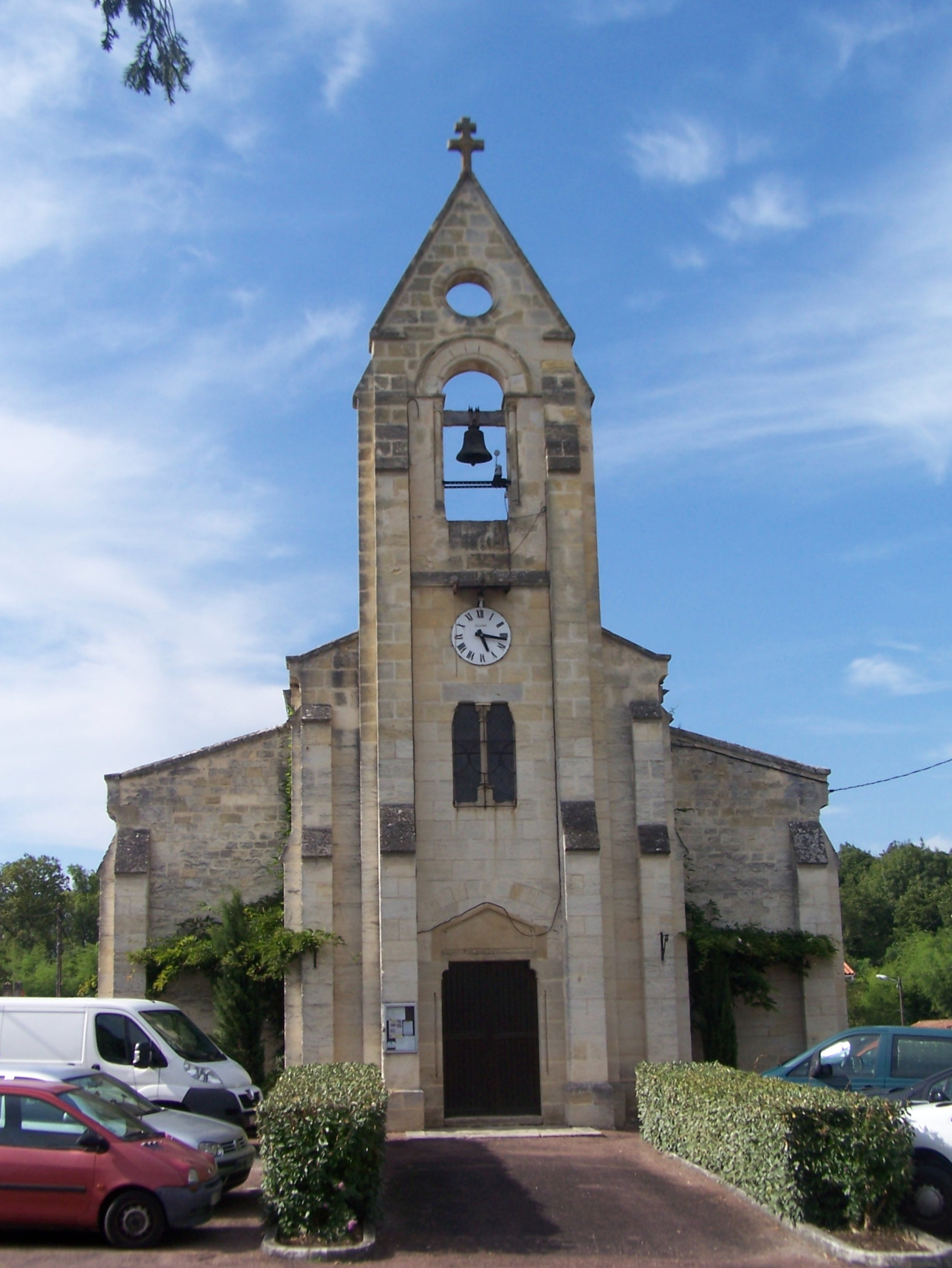 Church Saint-Clément-de-Coma of Ayguemorte-les-Graves (Gironde, France)